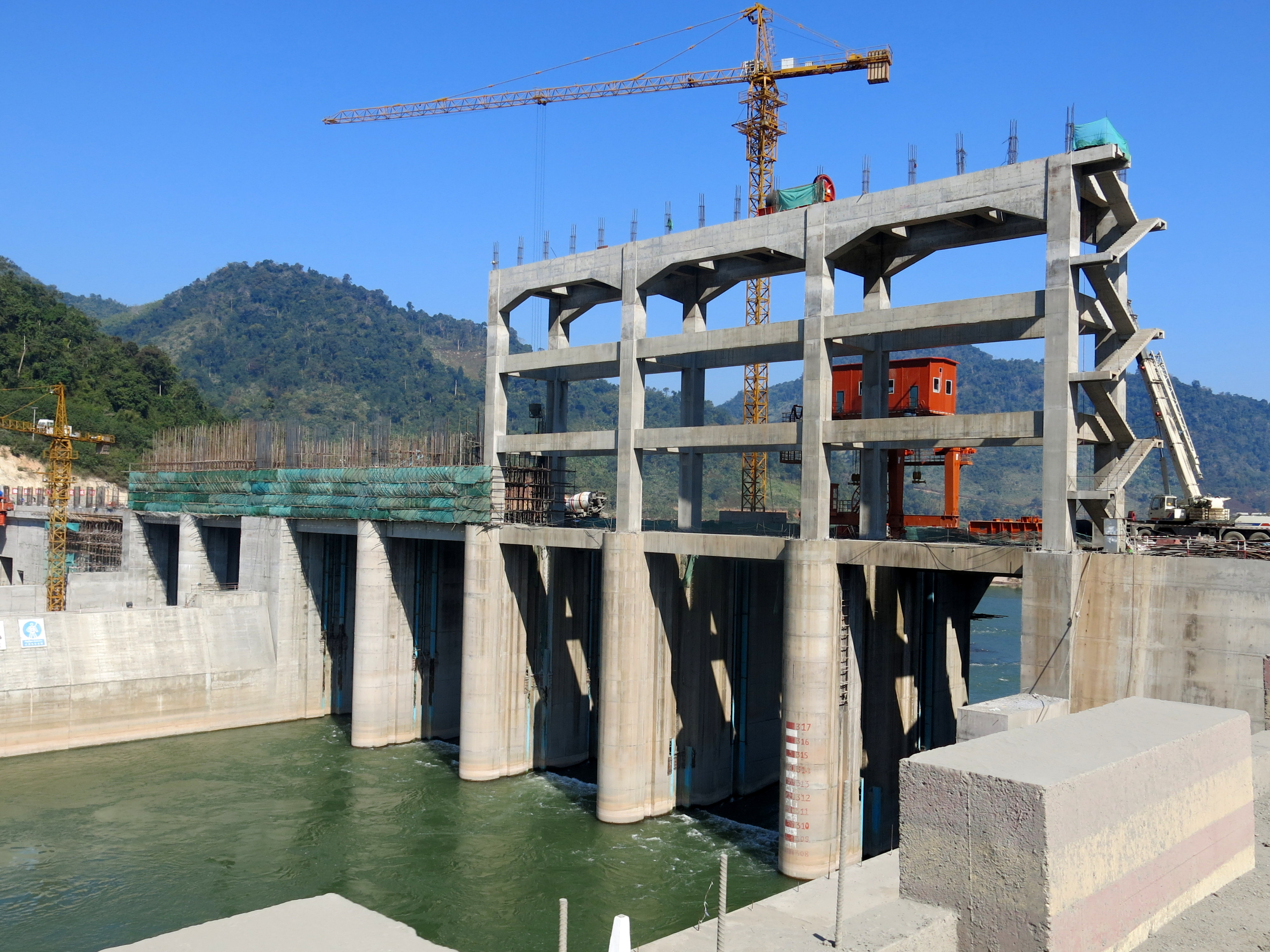 Dam construction for energy supply in the lower reaches of the Nam Ou